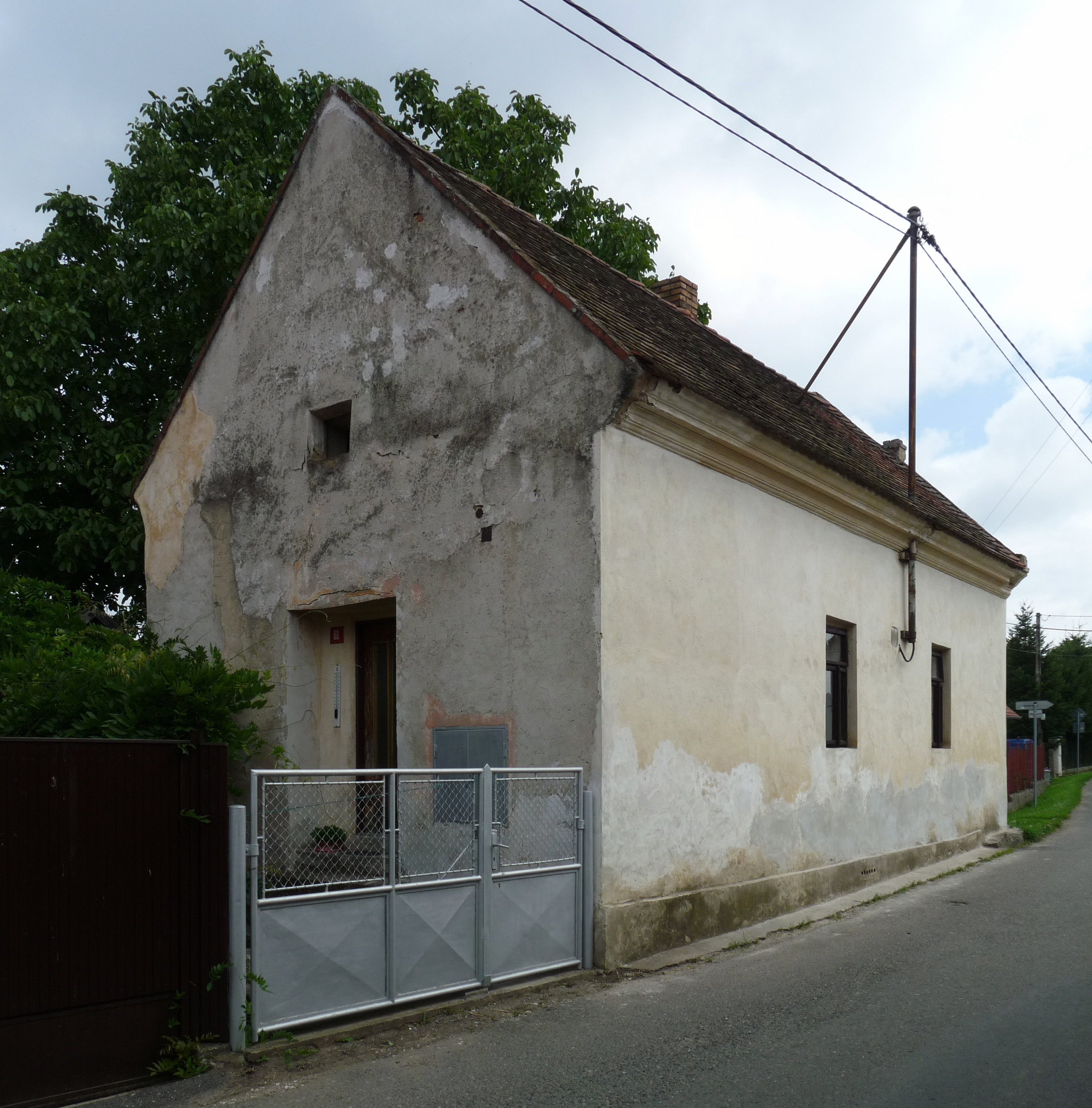 Former synagogue in Klučenice, Příbram District, Central Bohemian Region, Czech Republic.